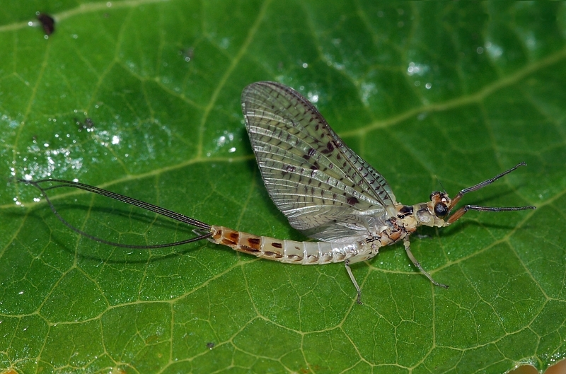 Unidentified Ephemeroptera, Frankfurt am Main, Germany